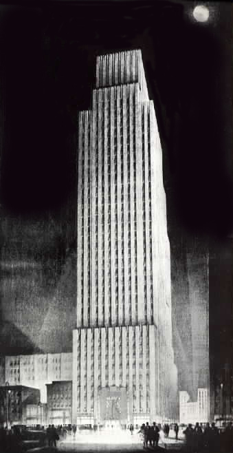 New York Daily News Building, Raymond Hood architect, rendering by Hugh Ferriss.